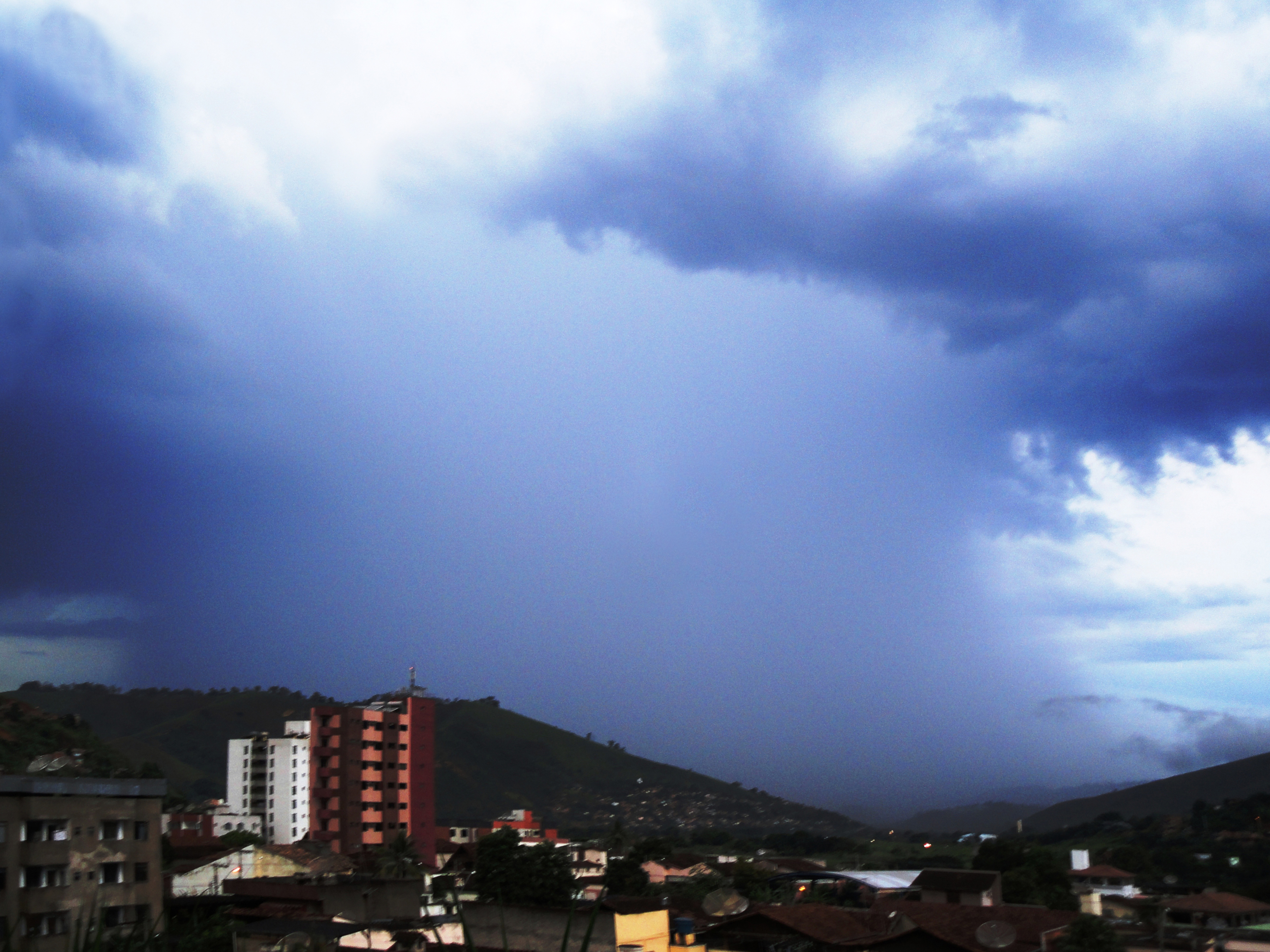 Rain in Coronel Fabriciano, Minas Gerais, Brazil.